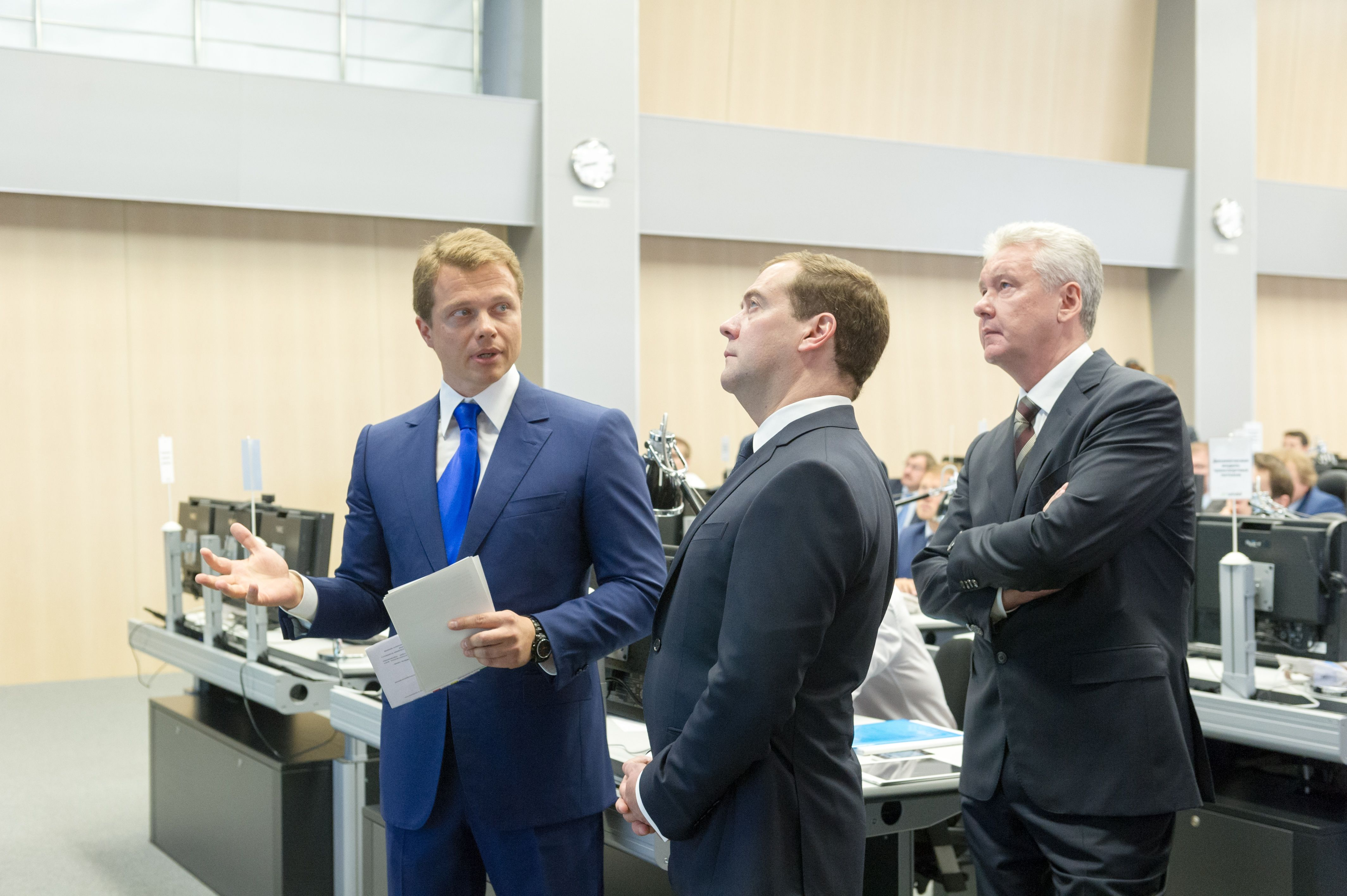 Maxim Liksutov, Dmitry Medvedev and Sergey Sobyanin